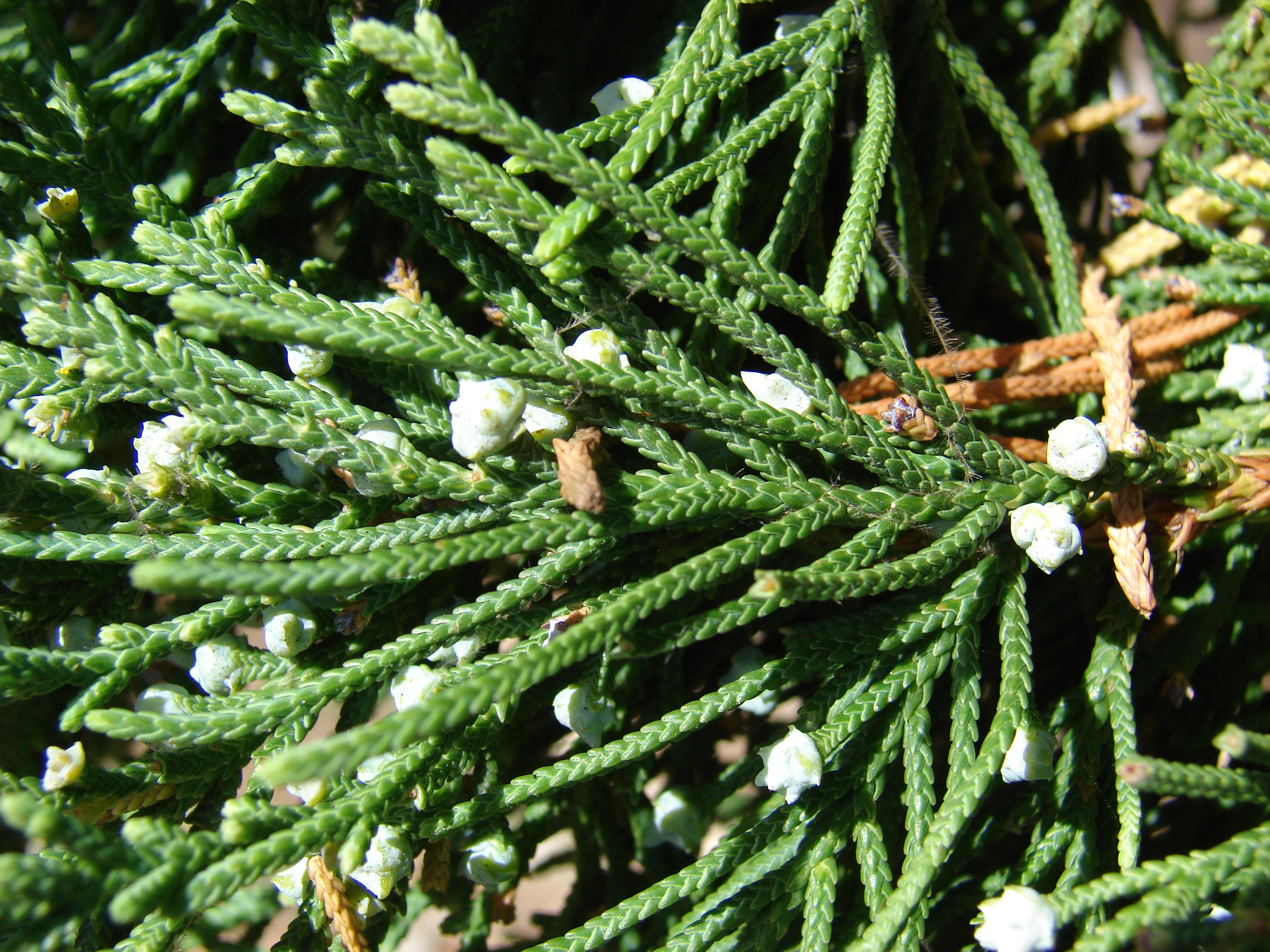 Juniperus bermudiana (needles and cones). Location: Midway Atoll, Road to Marine barracks Sand Island